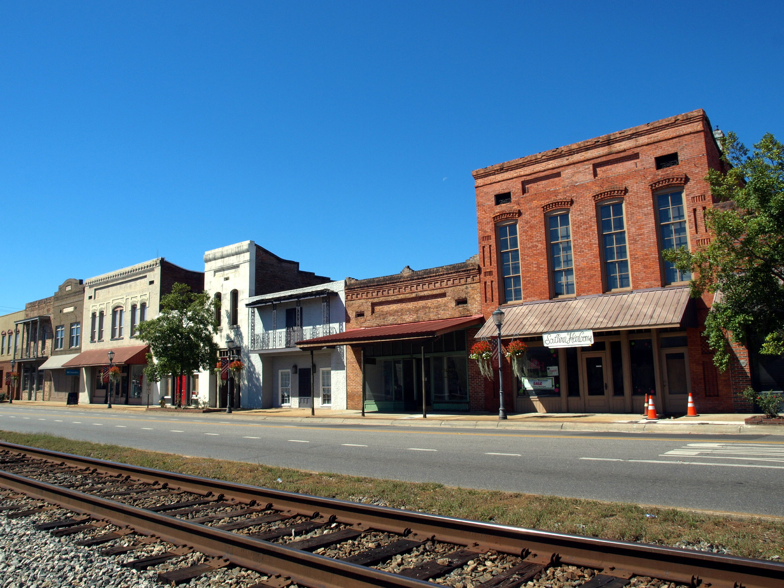 Buildings on St. Joseph Street in Brewton, Alabama, part of the Brewton Commercial Historic District